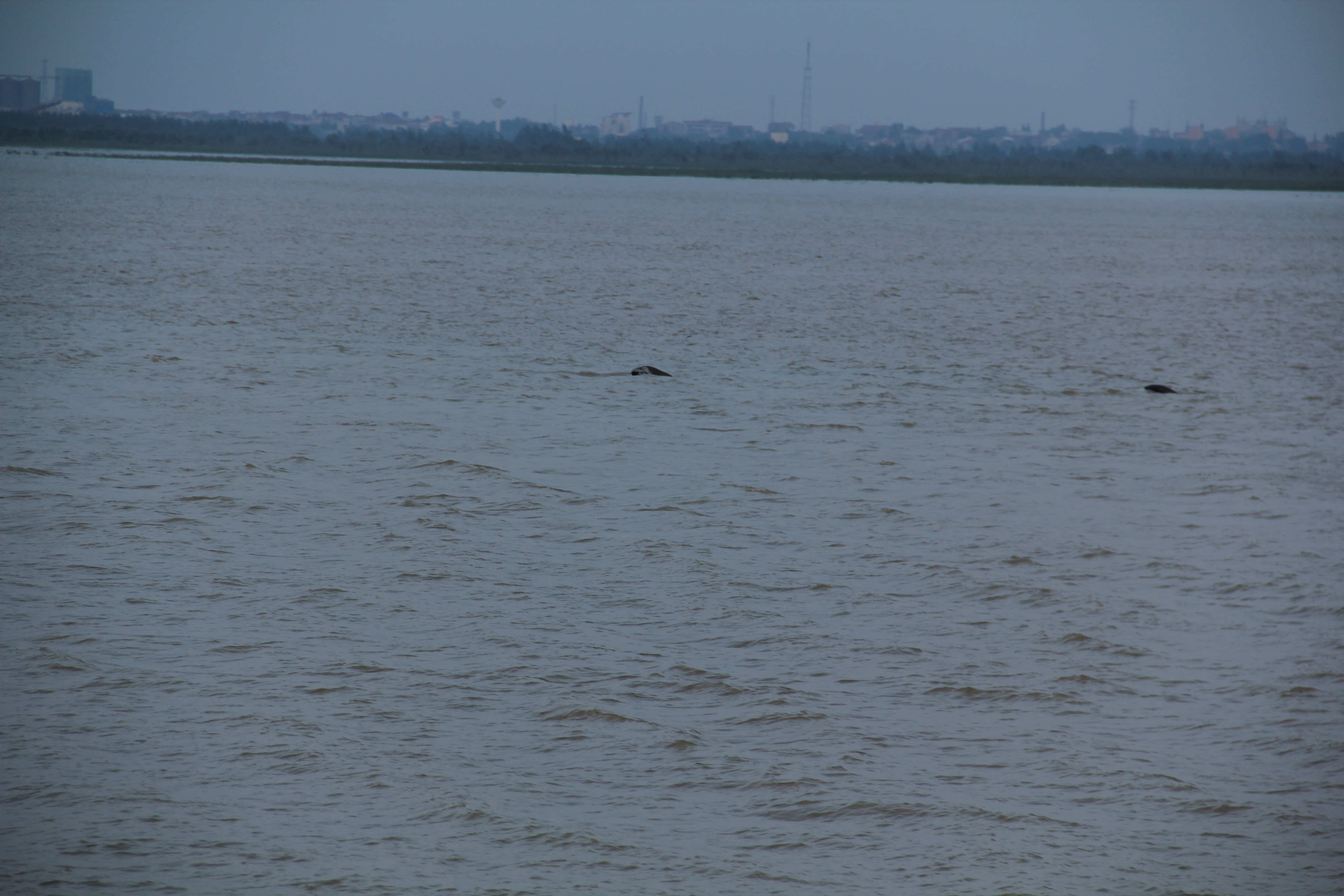 Yangtze finless porpoise in Dongting Lake, Hunan, China, on 13 August 2011.